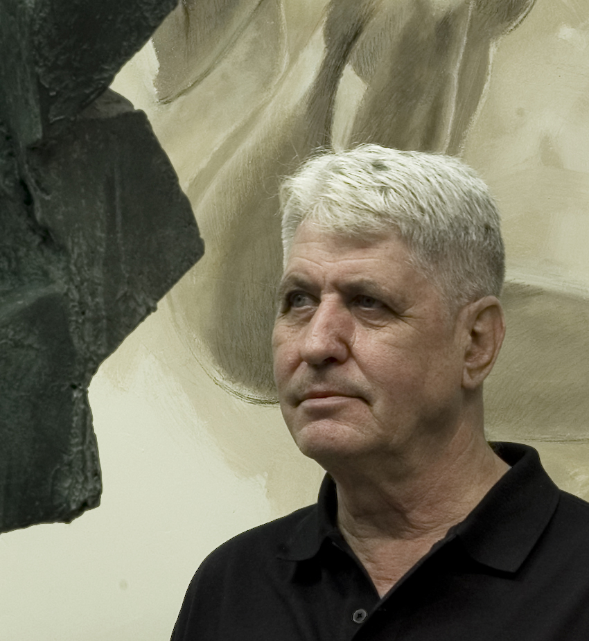 The sculptor Jacques Le Nantec, in his studio of Macau, on 20.03.2009